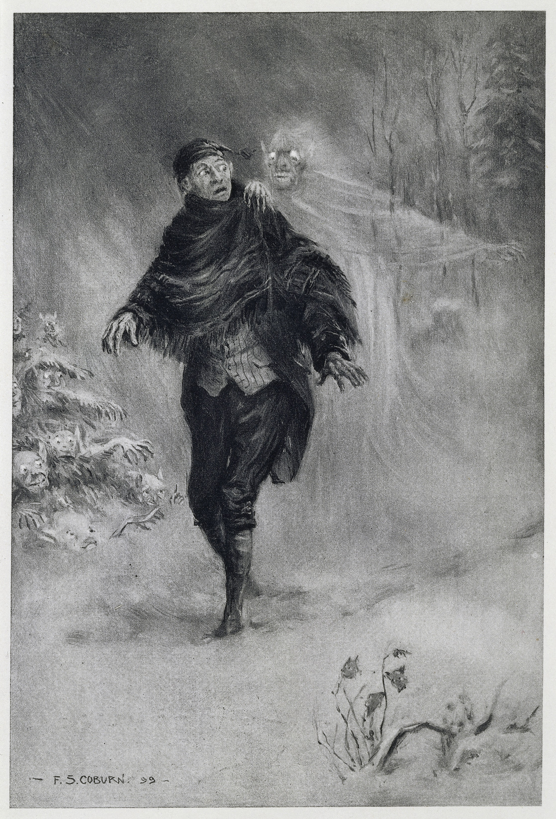 Ichabod Crane imagining a phantom at his shoulder. American ghost story and folk tale.